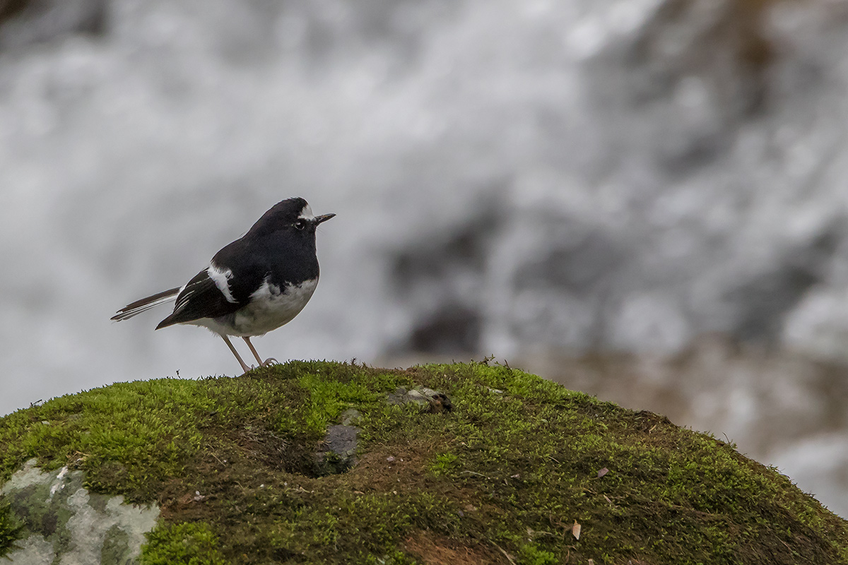 Individual in Sikkim, India